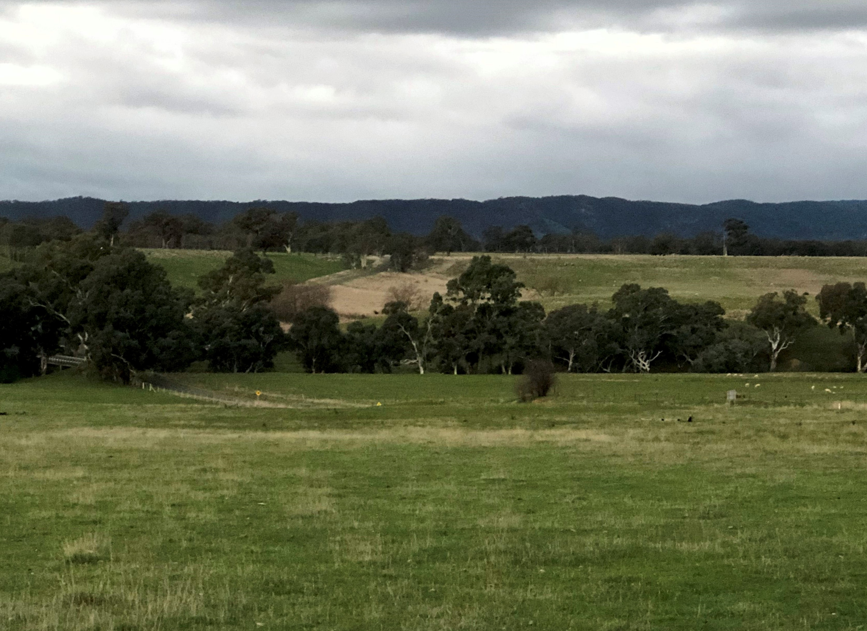 The location of the pastoral station set up by Charles Hotson Ebden and Charles Bonney in 1837